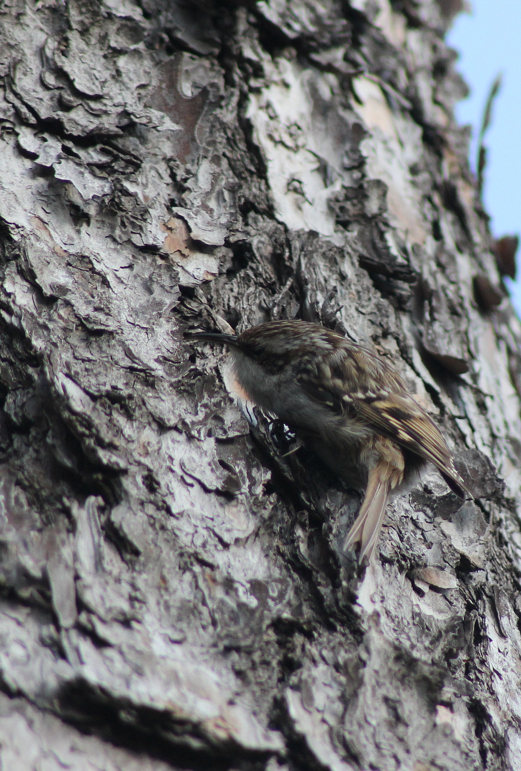 Eurasian treecreeper (Certhia familiaris) at the Villa Borgehse park in Rome.